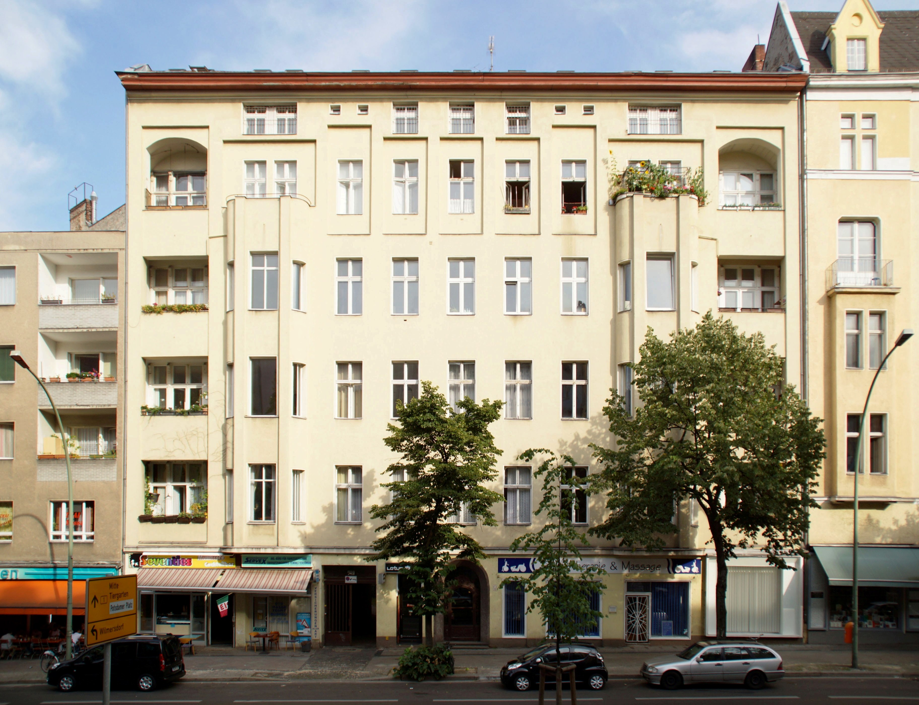 Apartment building on Hauptstraße 155 in Berlin, Schöneberg where David Bowie lived from 1976 to 1978 (flat on first floor, left hand side)